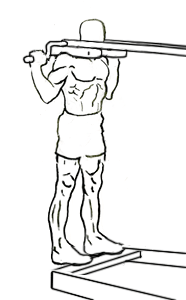 an exercise of calf